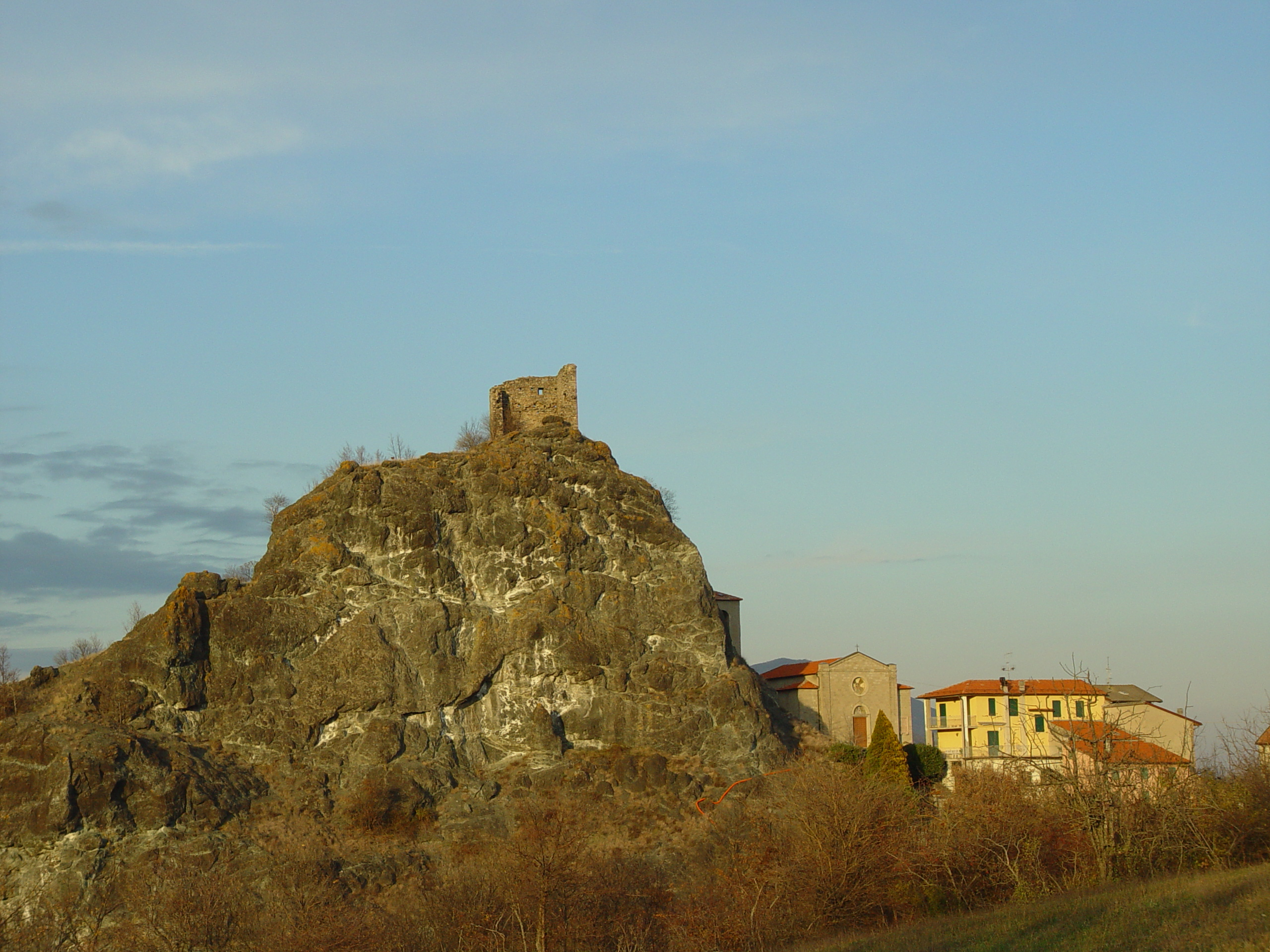 Ruins of Pietramogolana castle, an Old Tower in Taro Valley, Parma (Italy)